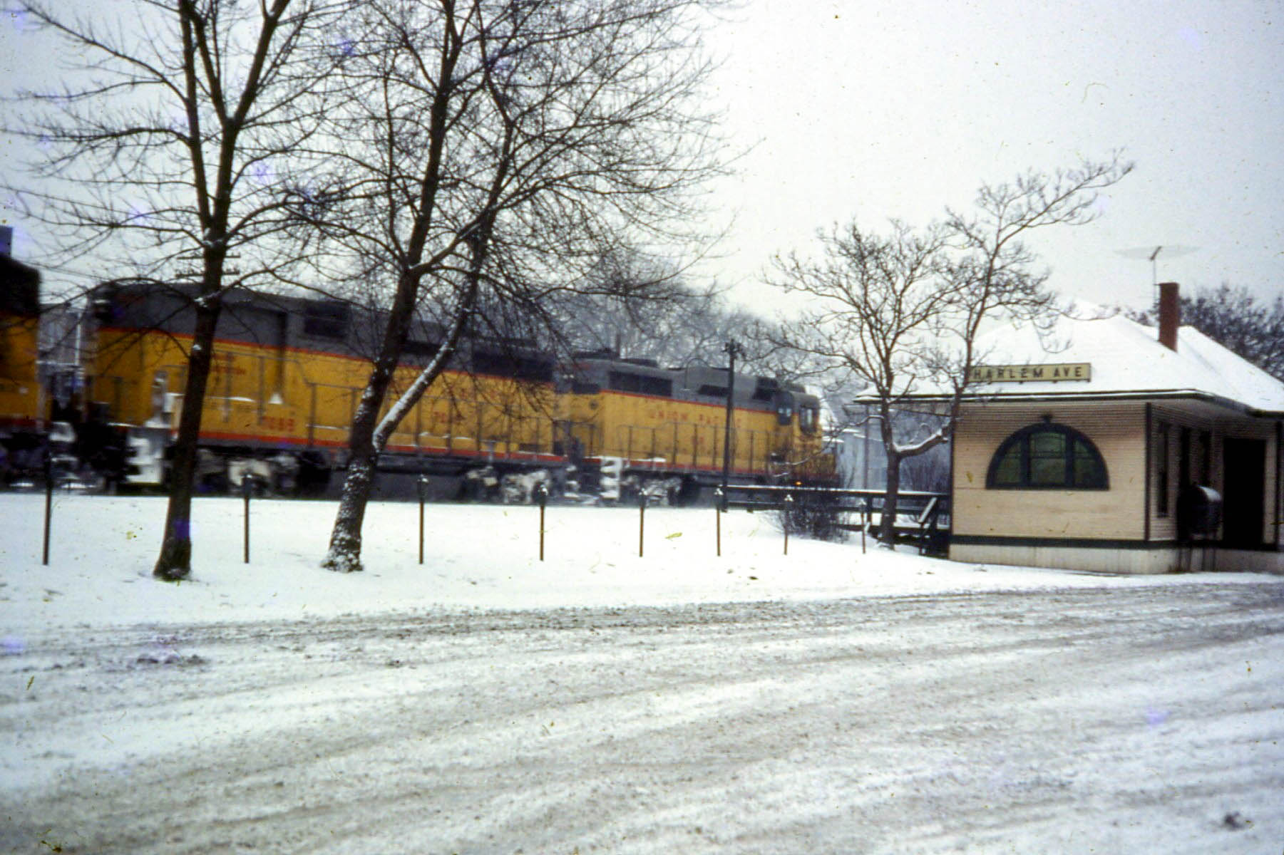 CGI was the Chicago -Grand Island run through train that continued on the Union Pacific to North Platte.